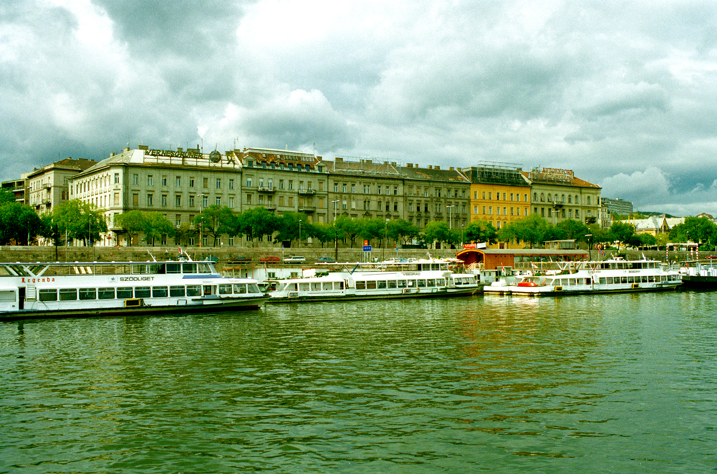 Budapest Danube cruise boat wharf